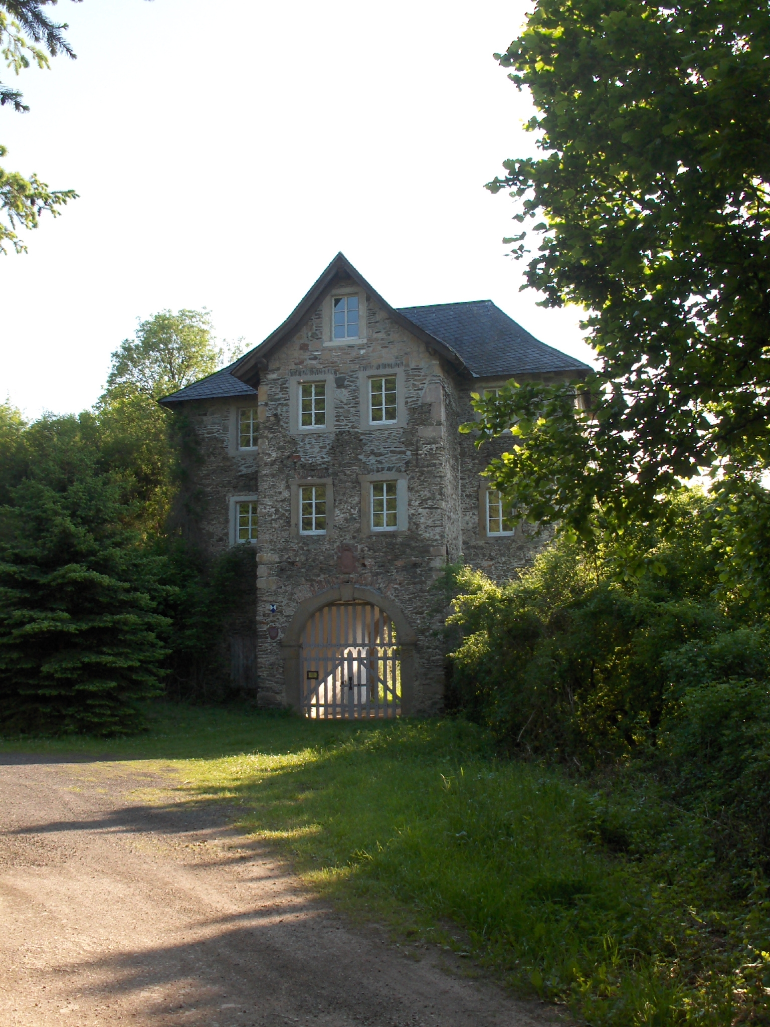 Gatehouse of the castle Argenschwang